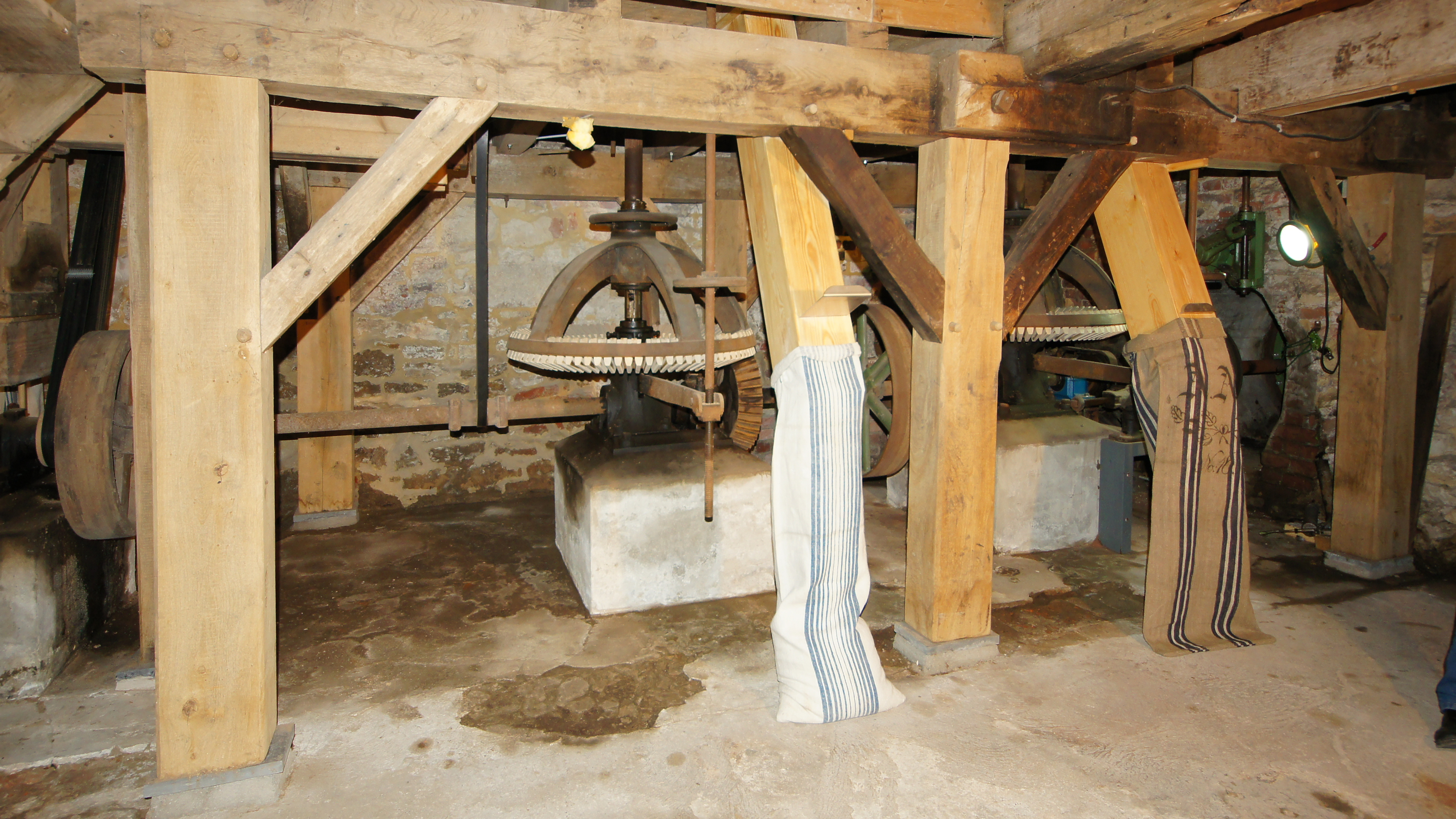 A water mill in Stevern, Nottuln, district of Coesfeld, North Rhine-Westphalia, Germany.